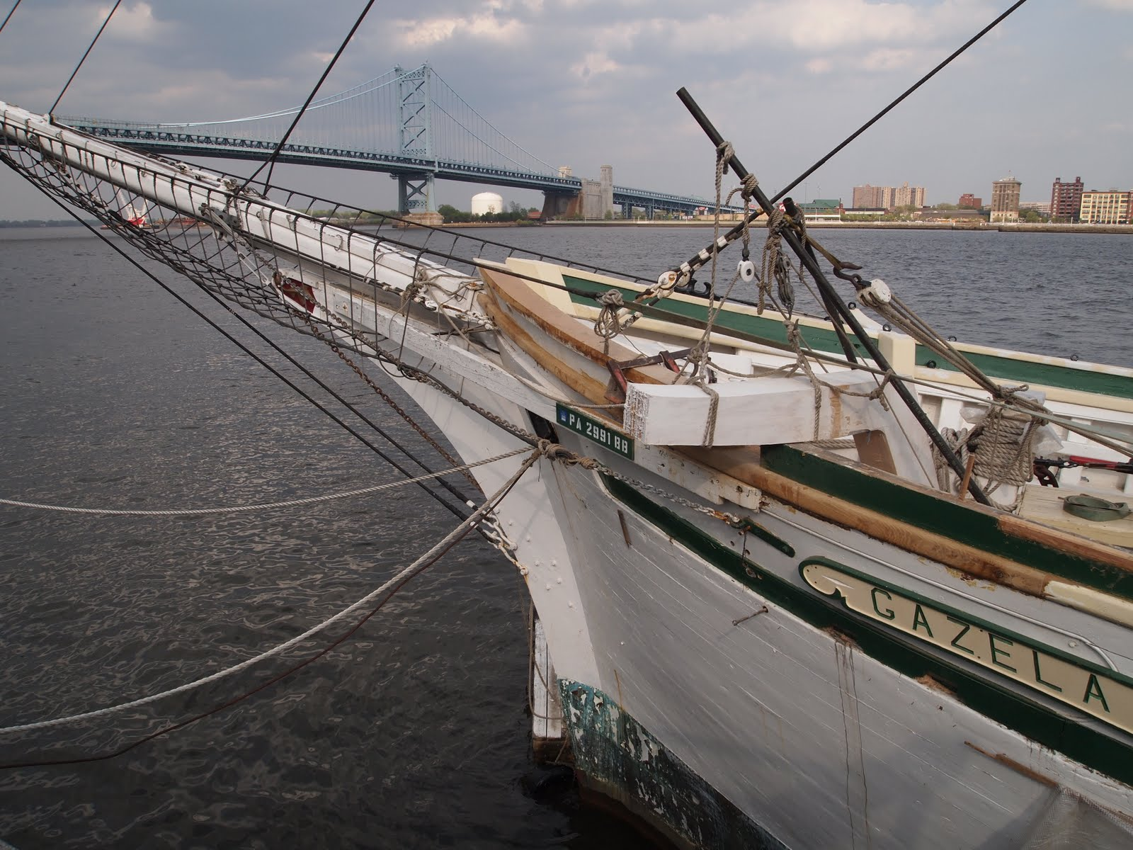 Gazela docked at penns landing, pa